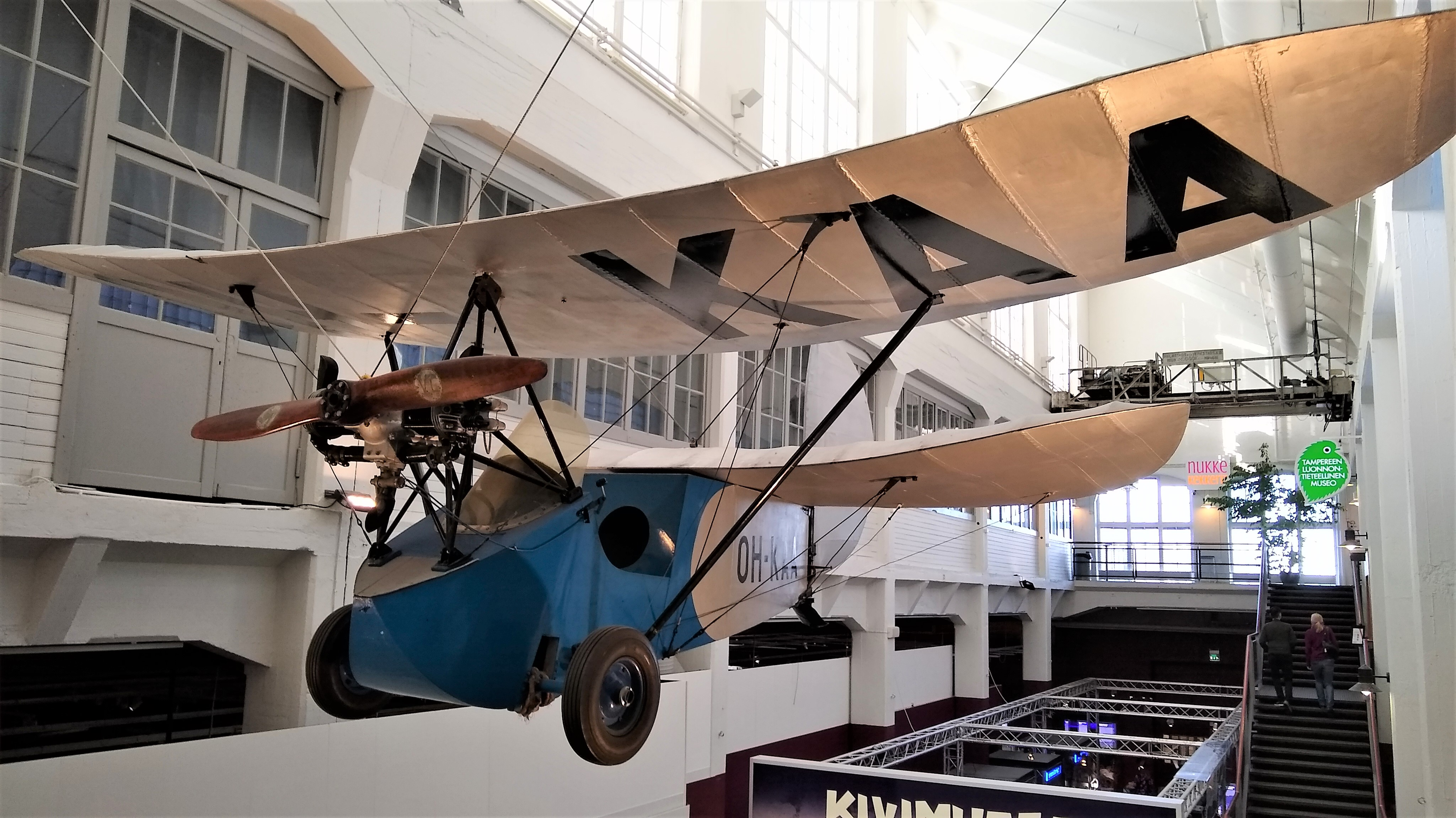 Mignet HM-14 Pou du Ciel museum aircraft (OH-KAA) suspended from the ceiling of the Museum Centre Vapriikki in Tampere, Finland.